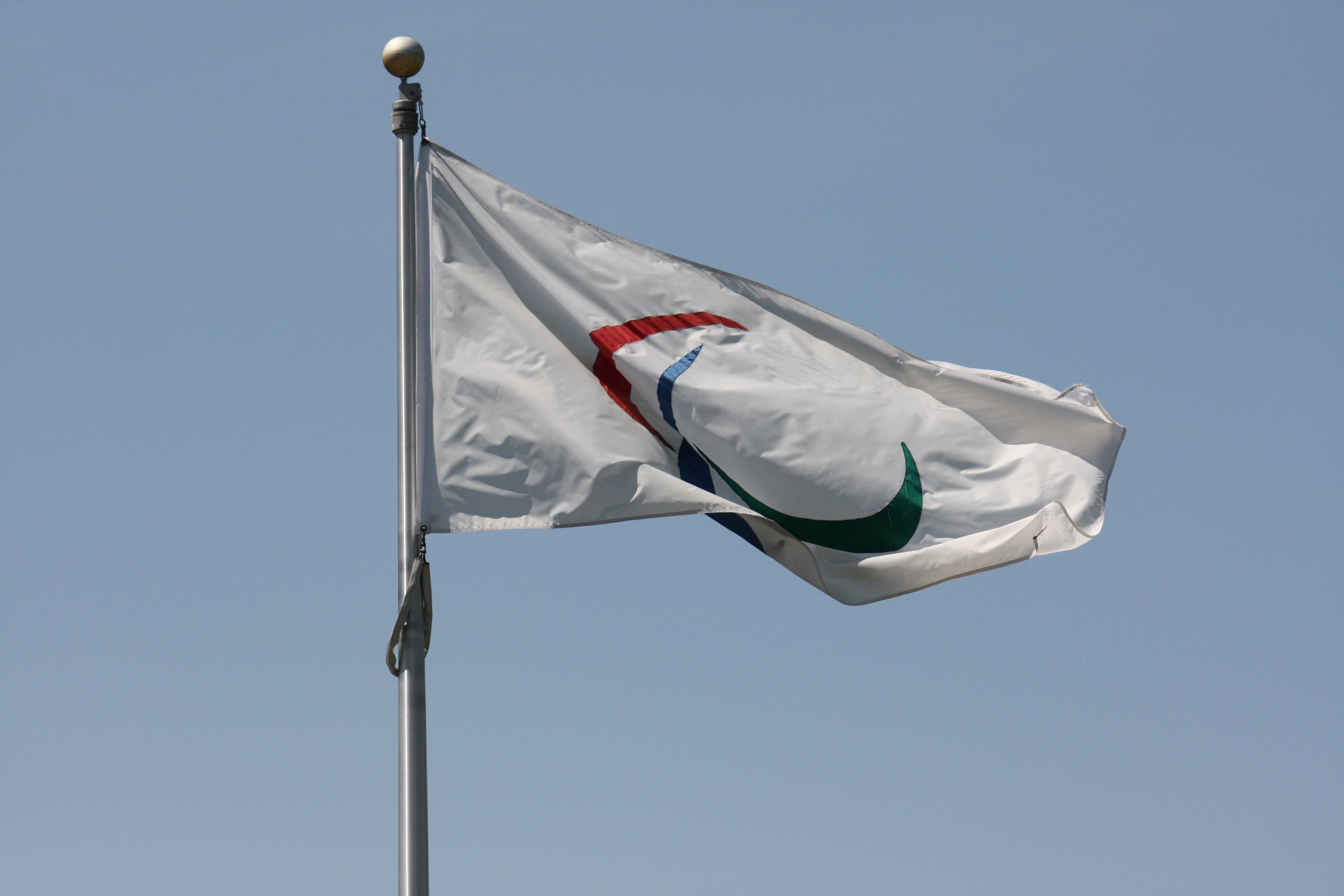 The flag of the Paralympic Games.